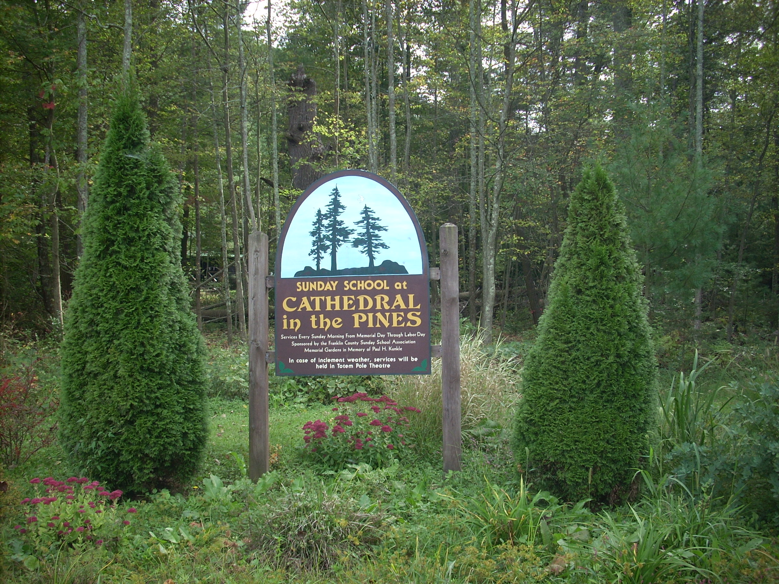 Cathedral in the Pines sign at Caledonia State Park